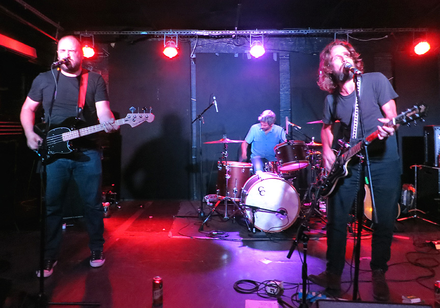 Overseas at Mercury Lounge in NYC on Monday, August 19th, 2013. With opener Strand of Oaks.